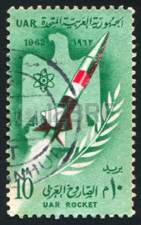 UAR rocket Egypt stamp 1962